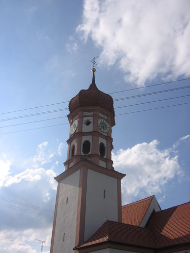 church of Limbach (Burgau) in bavaria